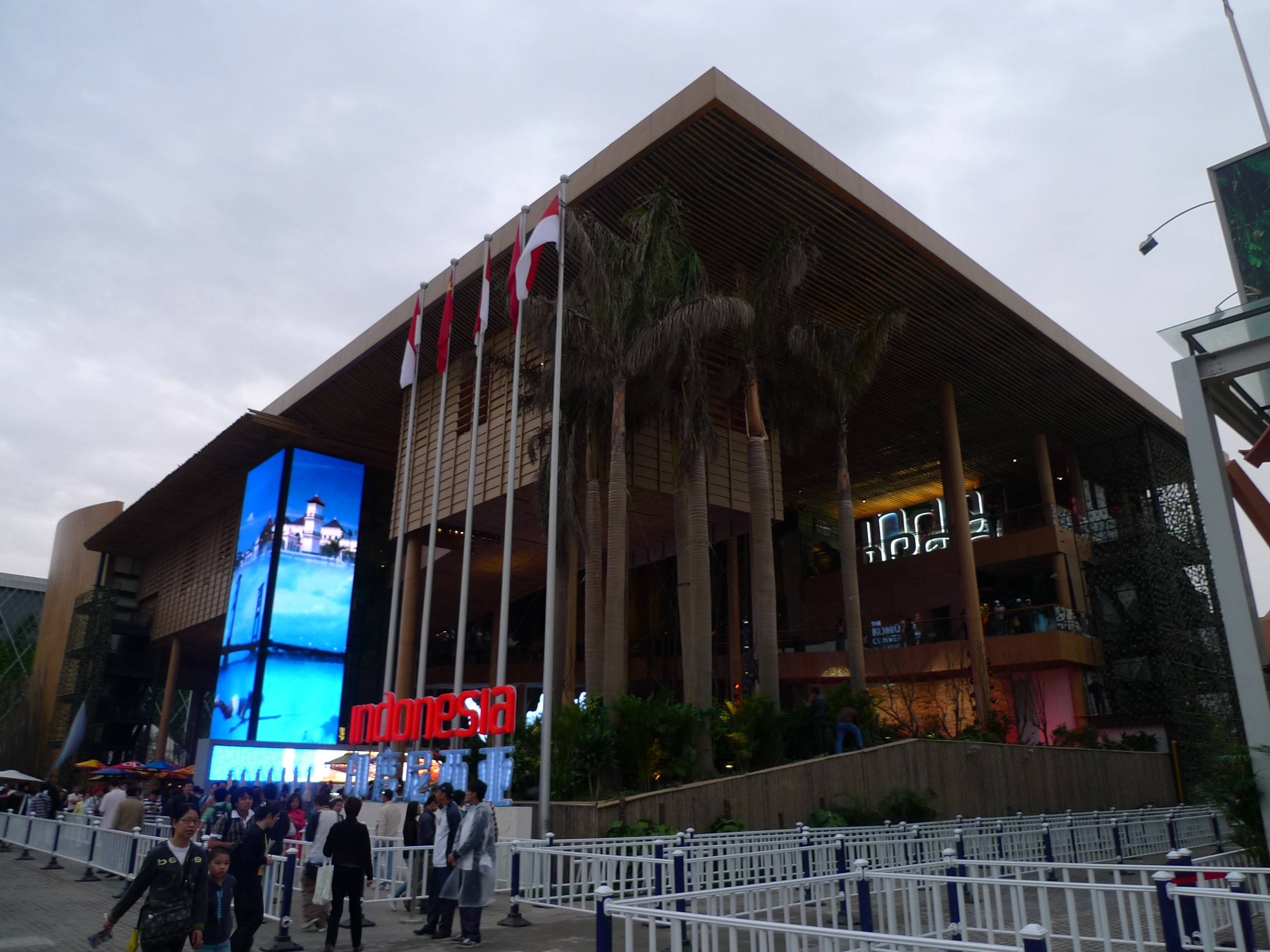 Indonesia Pavilion of Expo 2010